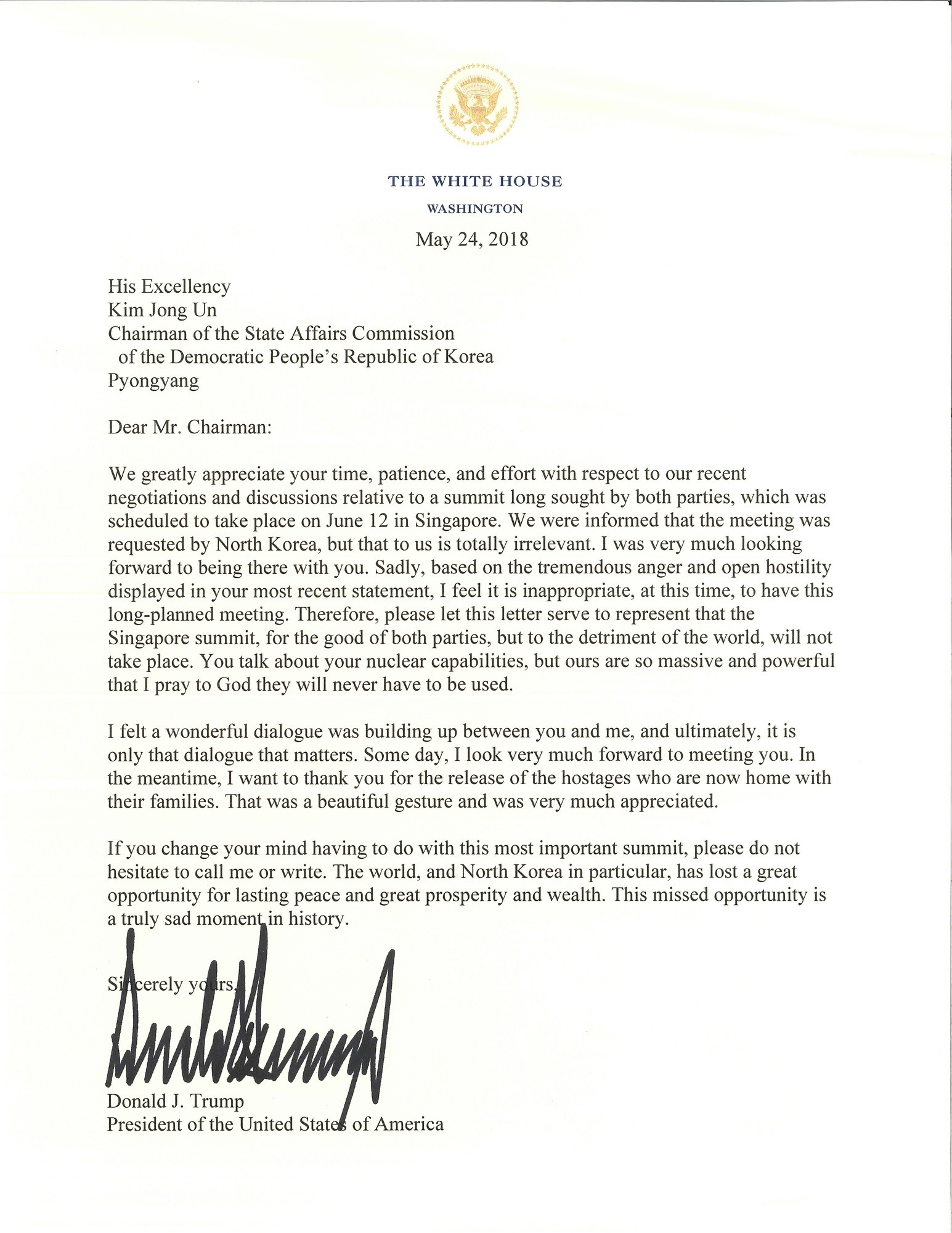 Statement of Donald J. Trump, President of the U.S., adressed to Kim Jong-un, Chairman of the State Affairs Commission and Supreme Leader of Democratic People's Republic of Korea, after Trump cancelled scheduled DPRK–U.S. summit of June 12, 2018 which finally took place.